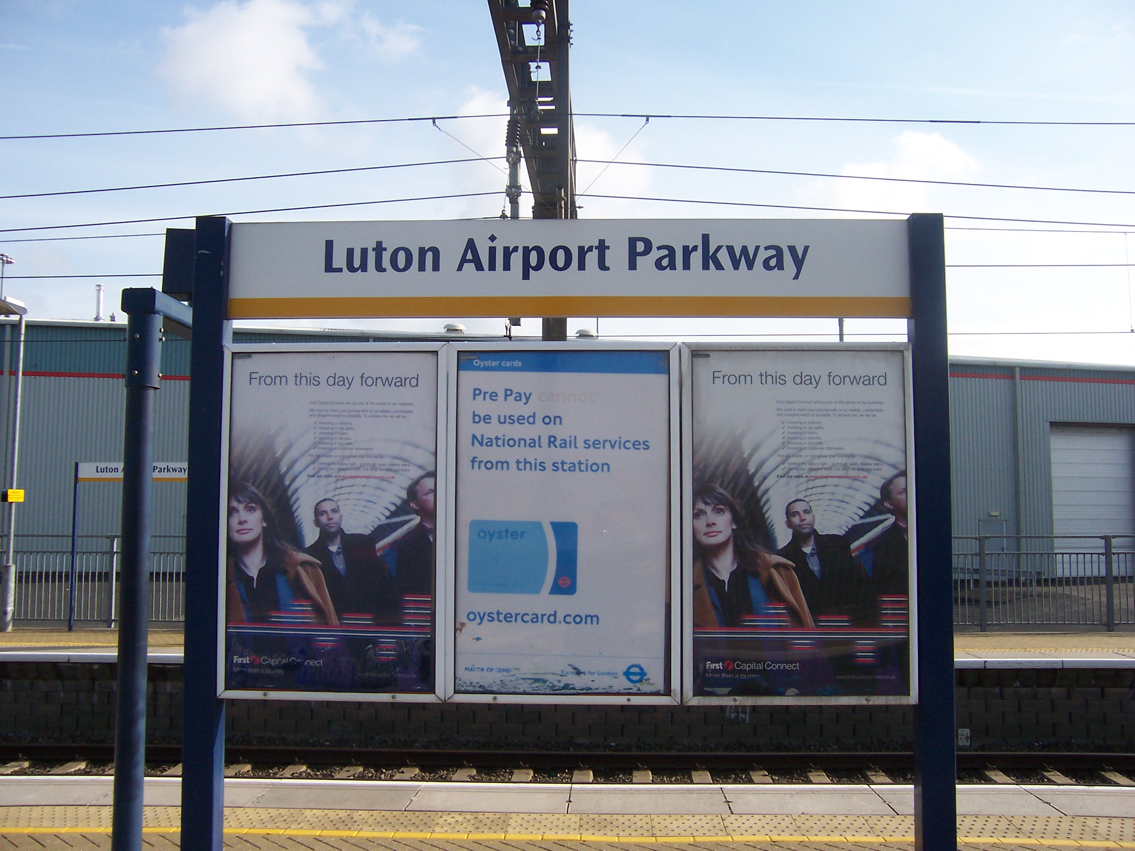 Station logo at the northwestern end of Luton Airport Parkway.